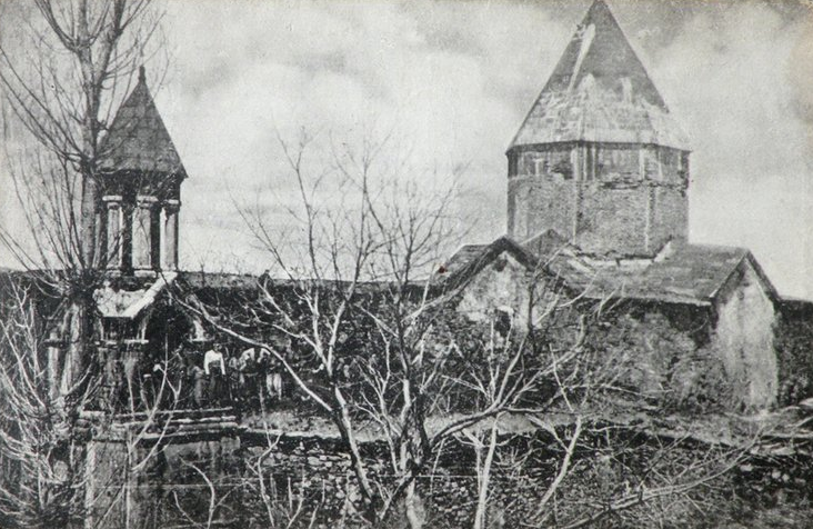 The 6th century Armenian Monastery of the Holy Apostles in the Taron province of historic Armenia near Mush (now in eastern Turkey).